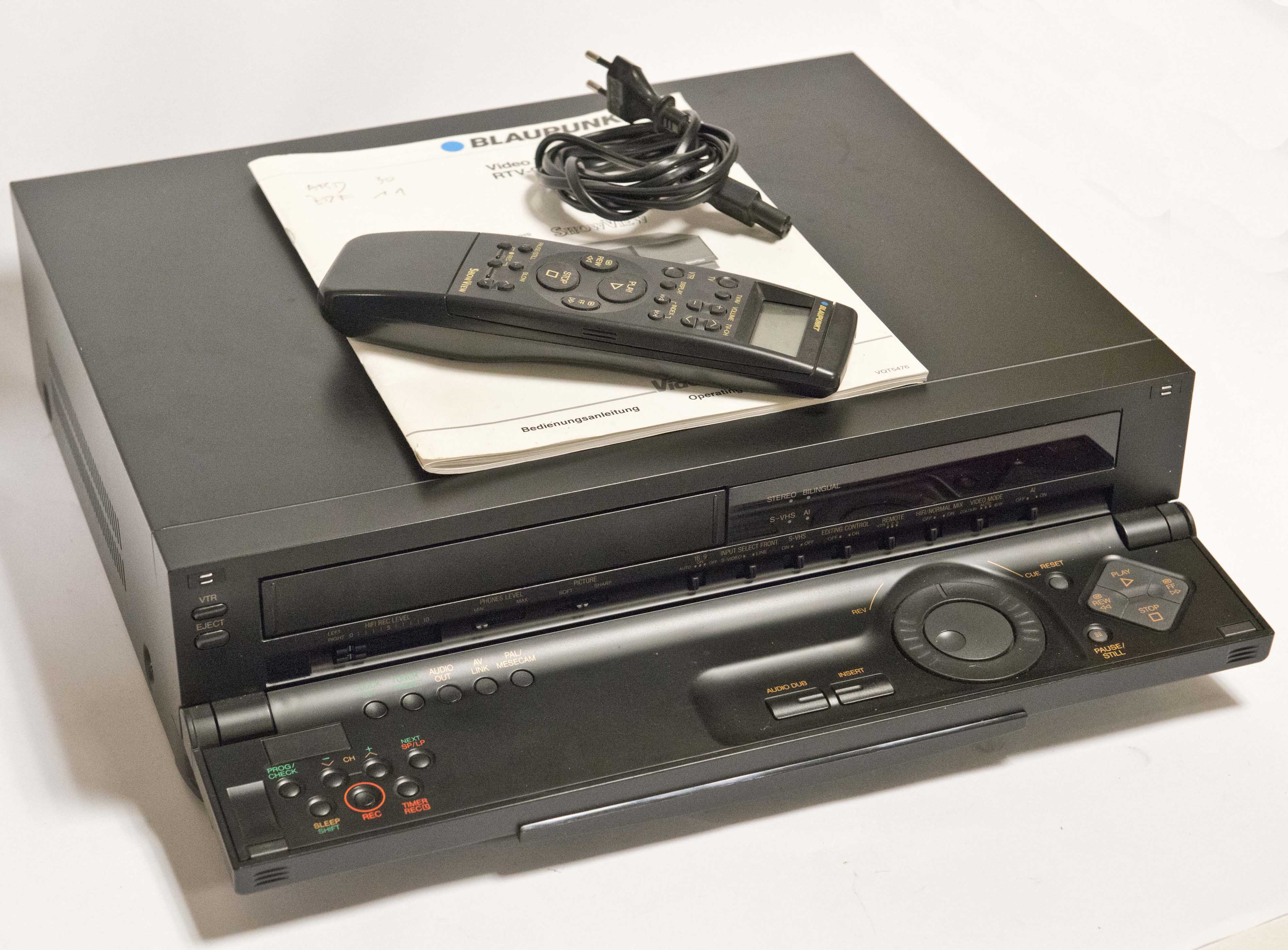 Video recorder by Blaupunkt, manufactured around 1990